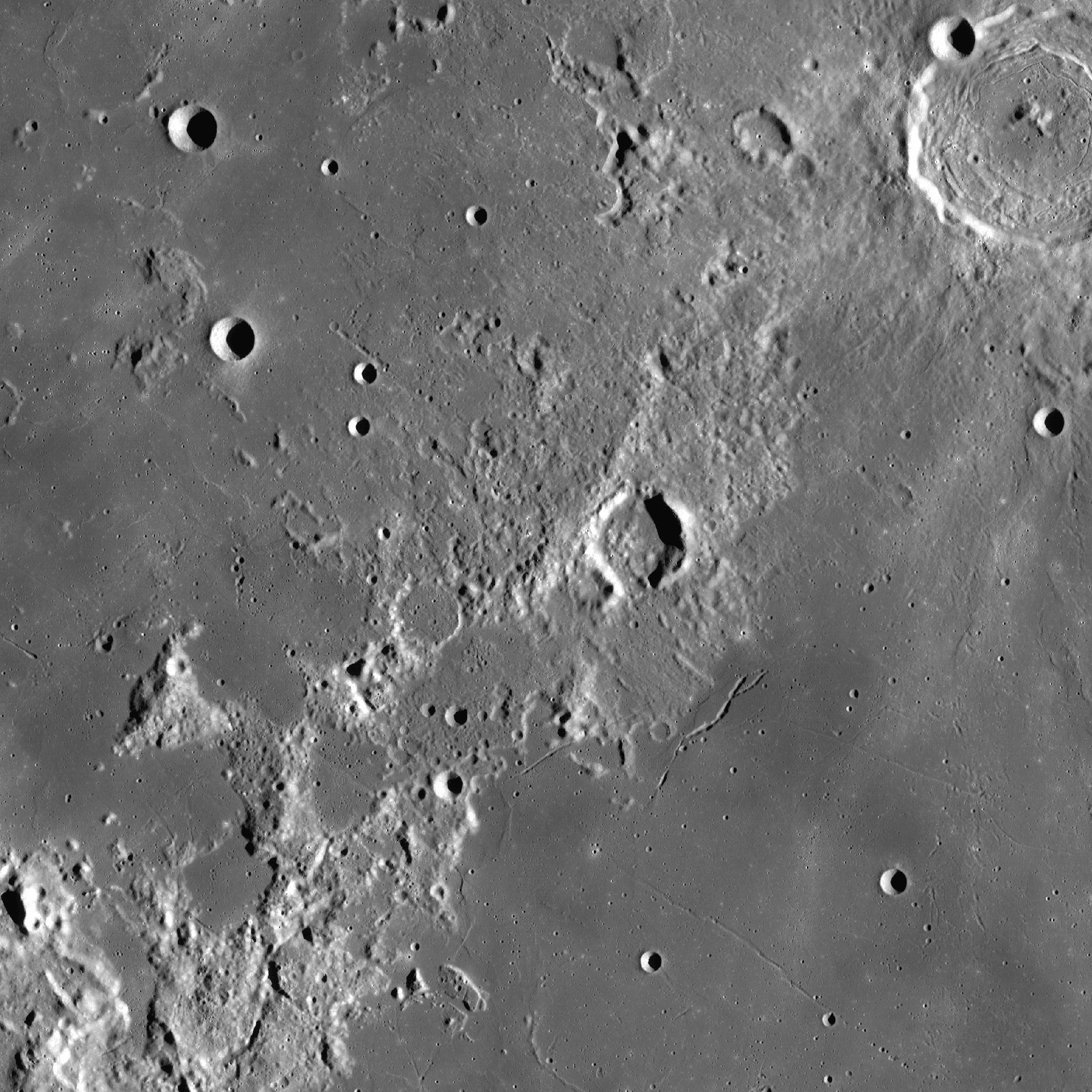 Montes Secchi on the Moon. Mosaic of photos by Lunar Reconnaissance Orbiter, made with Wide Angle Camera. Size of the image is 250×250 km, north is up.